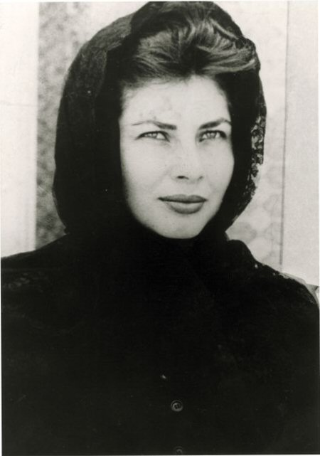 queen soraya esfandiary